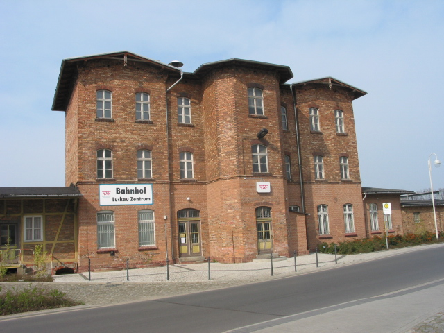 Station Luckau Zentrum, which is the seat of the railway company DRE Transport GmbH